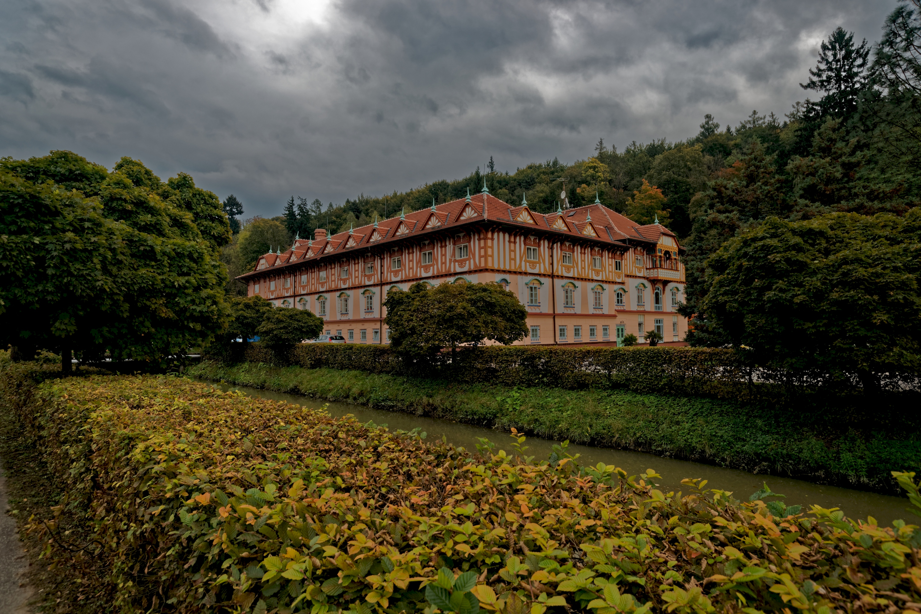 Luhačovice - Lázeňské náměstí - View East towards Jurkovič House 1902 by Dušan Jurkovič